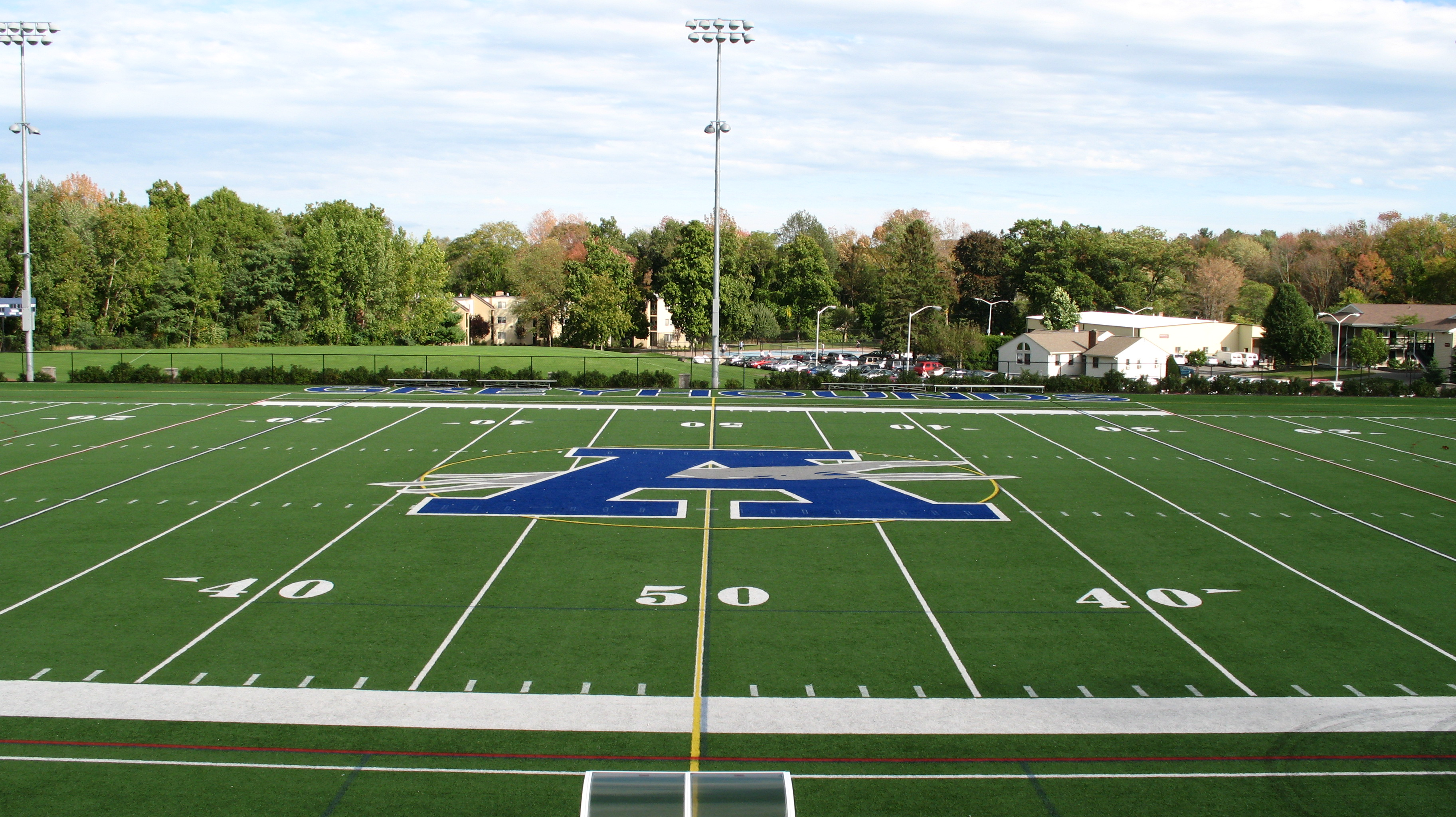 The Assumption College Multi-Sport Stadium, which opened in September, 2005. The view is from the press-box area and looks down on the Assumption softball field (below east sideline), and upper-classman apartment housing.